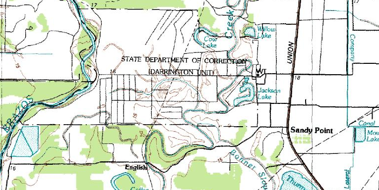 USGS topographic map of the Darrington Unit in Brazoria County, Texas